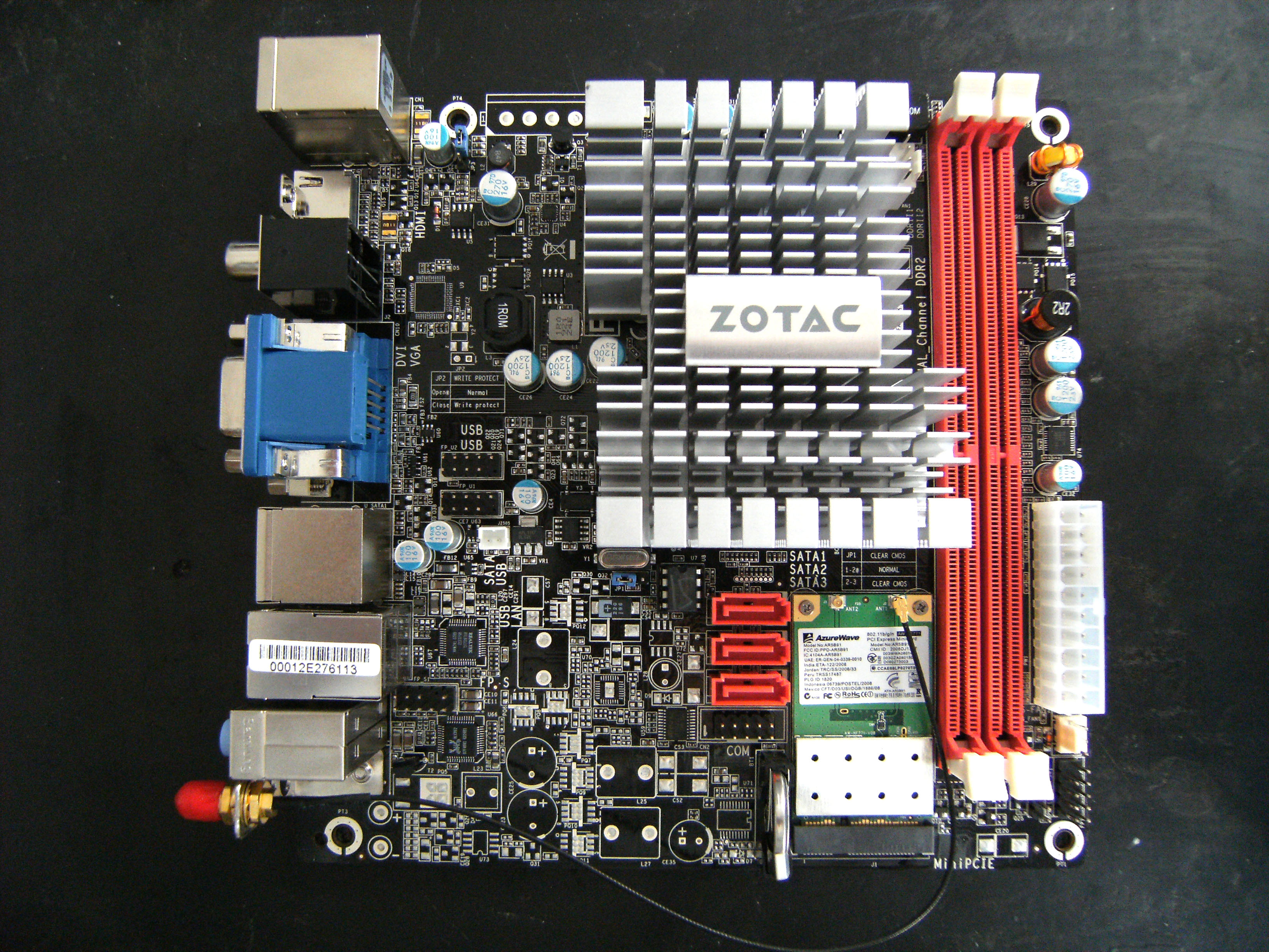 Motherboard Zotac ION D mini-ITX CPU: Intel Atom Dual Core N330 with Hyper Threading. Clock 1,6GHz Video: NVidia GeForce 9400M